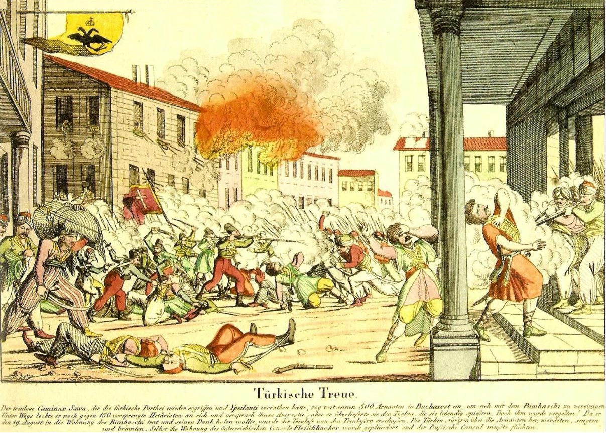 massacre of Bimbaşa Sava and the allies of the Eteria, Bucharest.